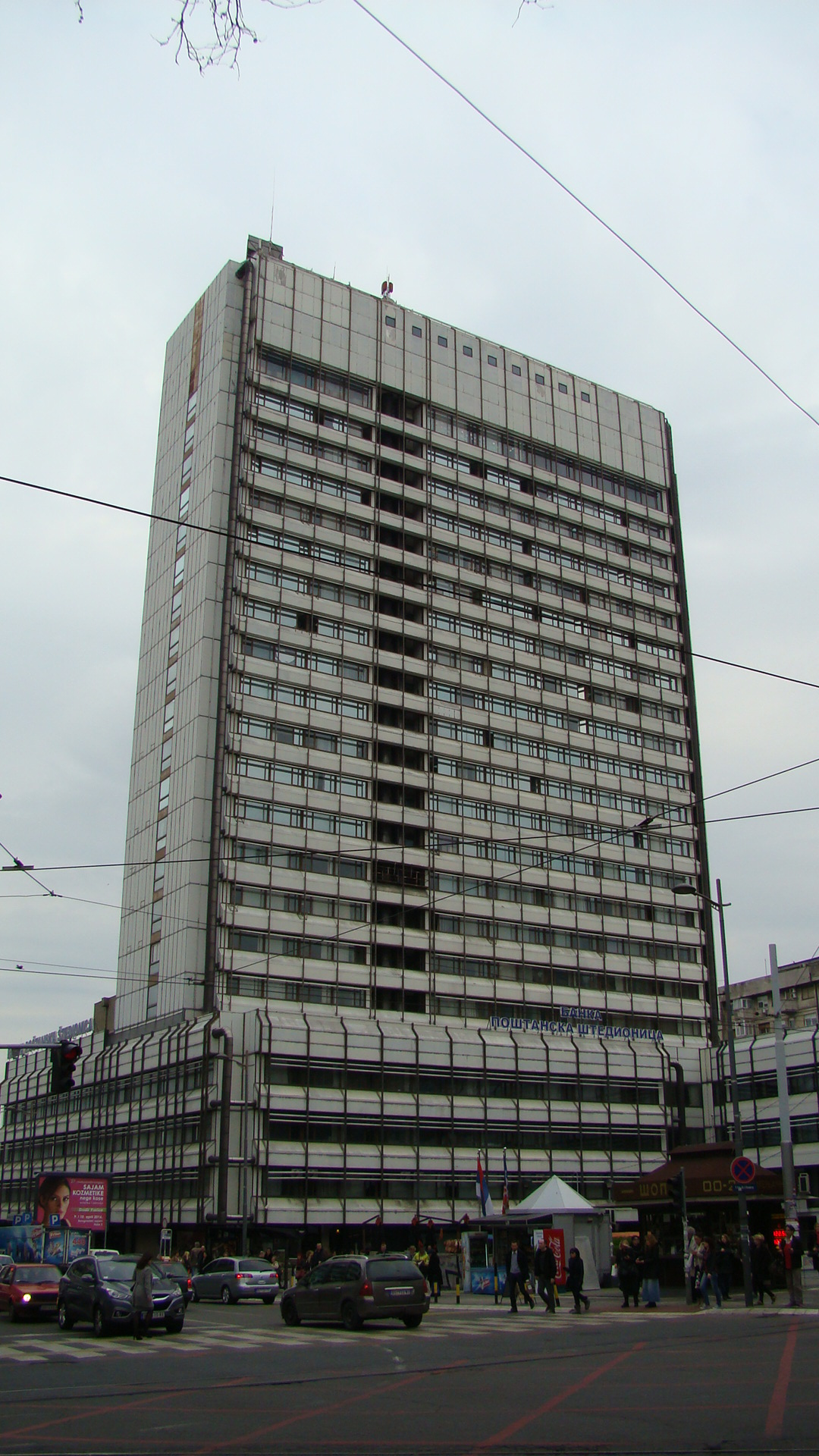 Inex Tower in 2016